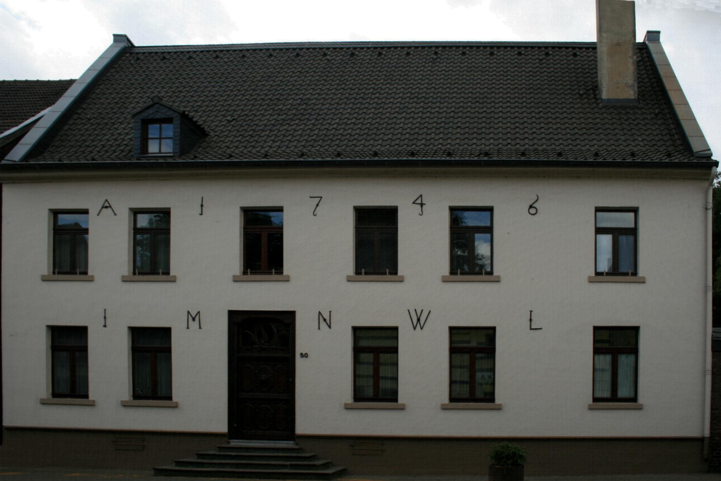 Cultural heritage monument No. B 039 in Mönchengladbach